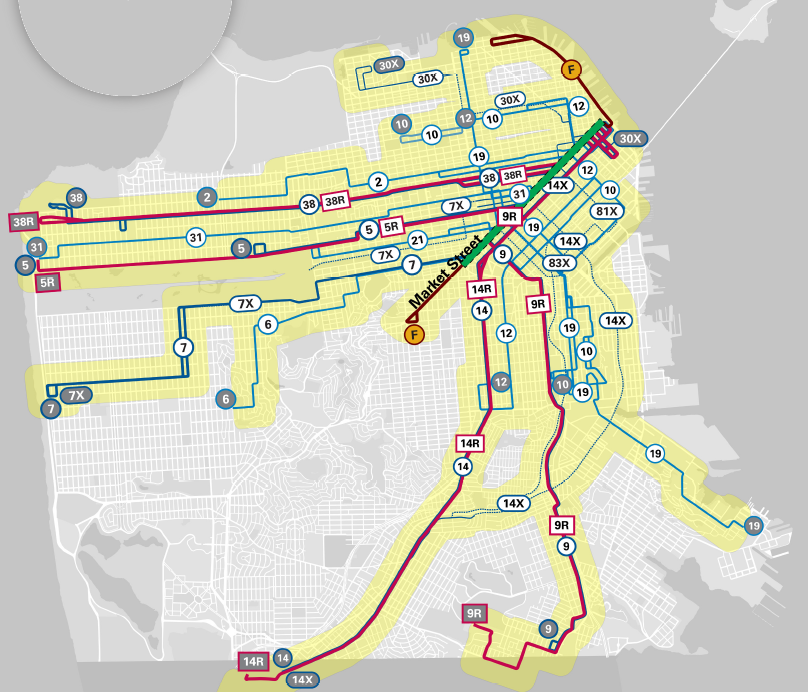 A map showing Muni routes that run on Market Street and their spread across the city as of 2019